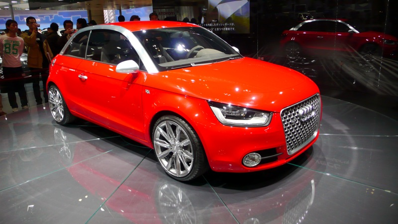 Audi Metroproject Quattro Concept